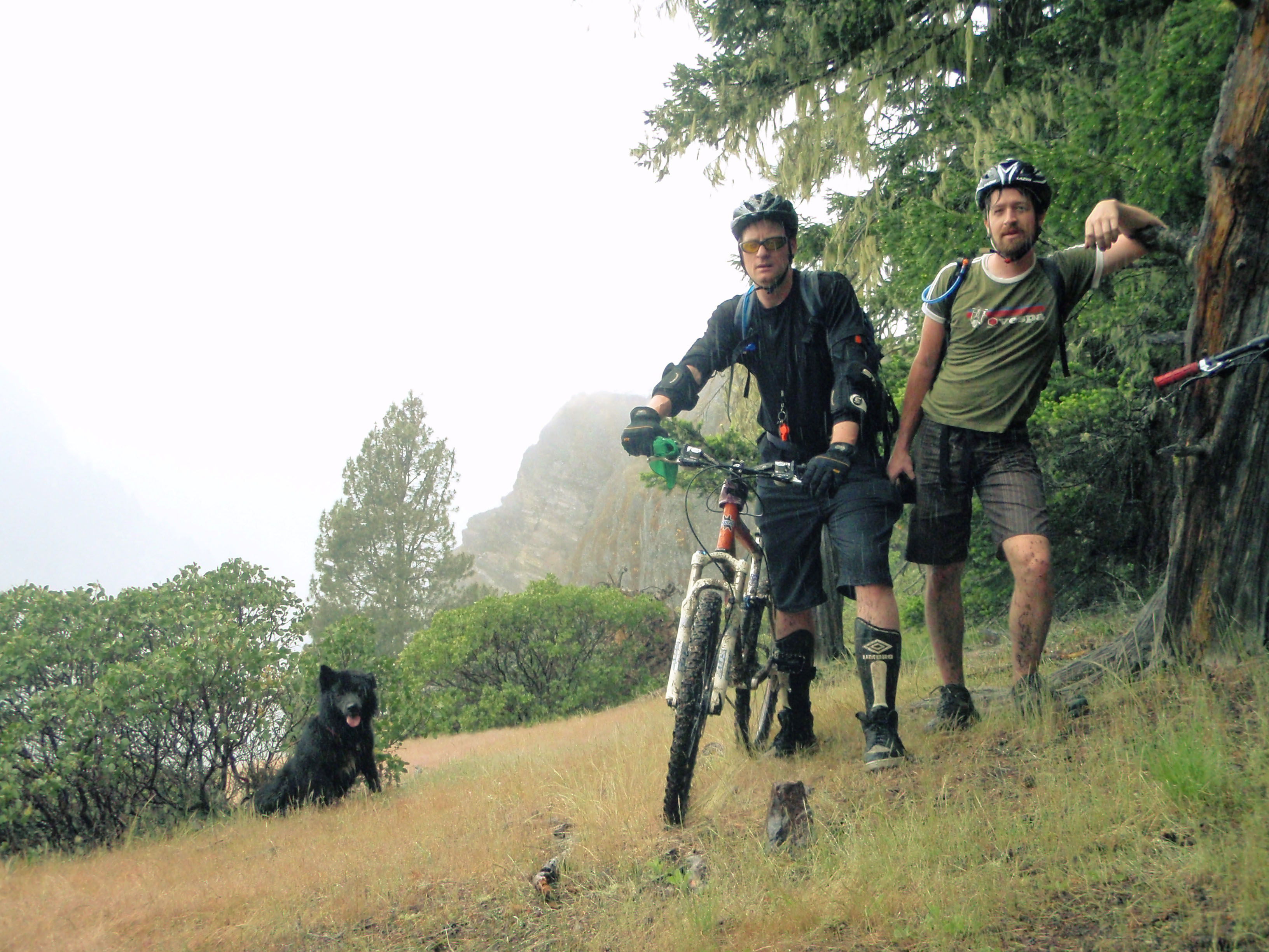 At the top of a hellish climb. Errrr... bike push. It's raining pretty hard.